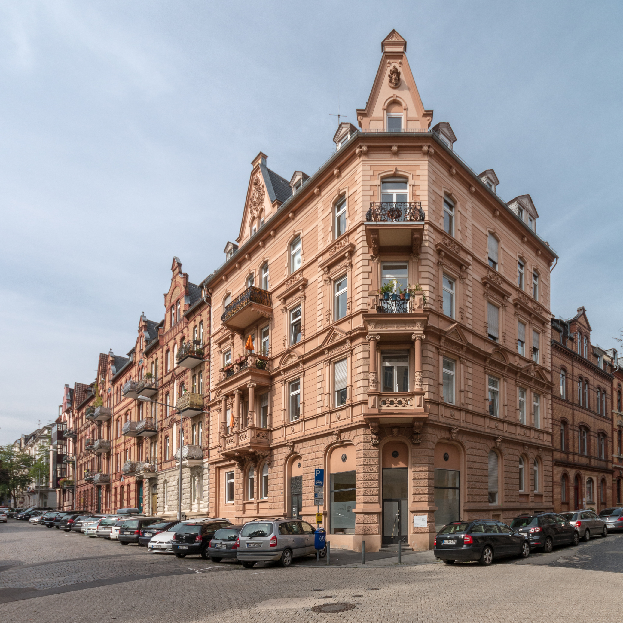 The building on the corner Yorckstraße 11 / Roonstraße in Wiesbaden